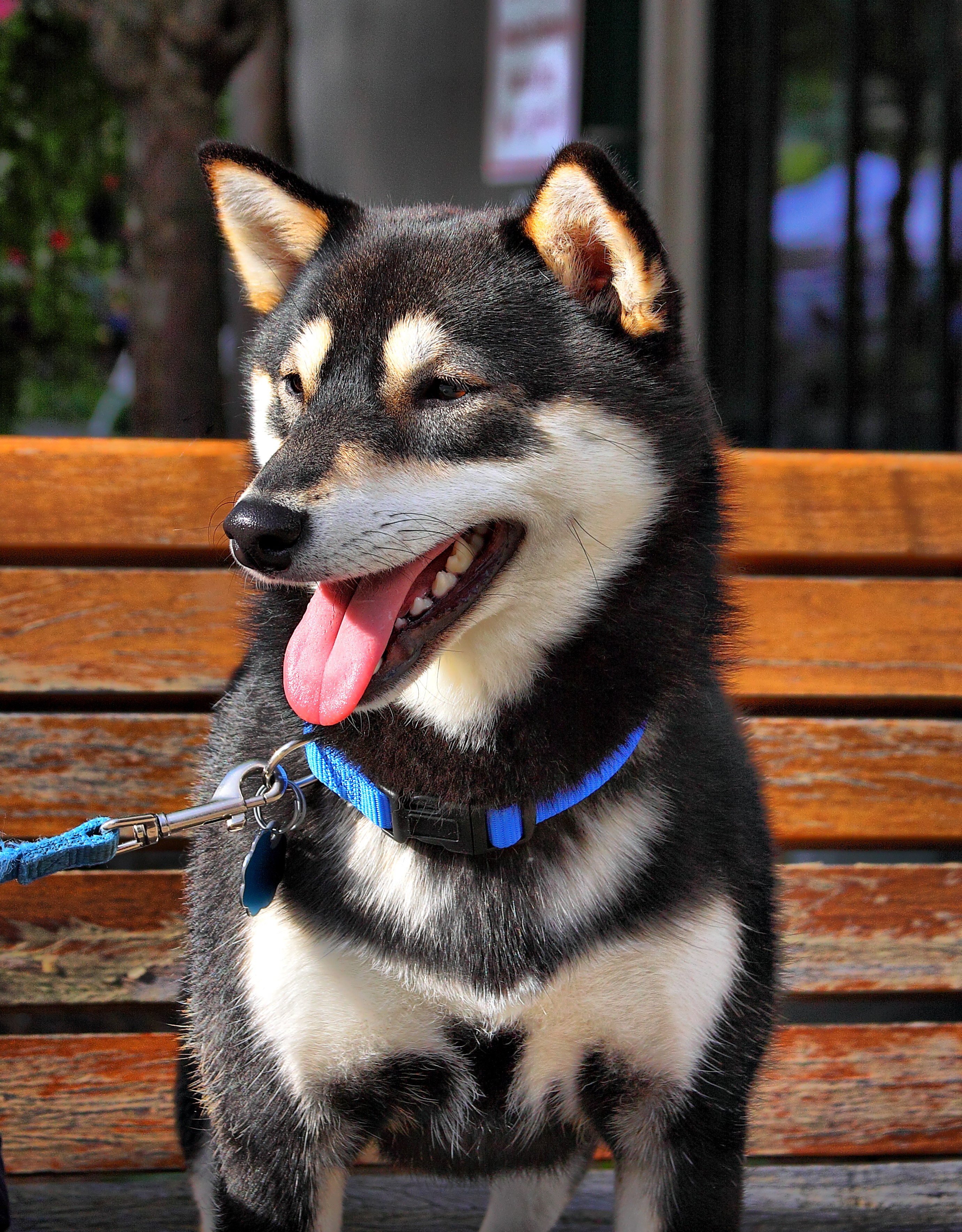 This dog is a Shiba Inu. Image taken in Lafayette, Indiana, Tippecanoe County, USA.